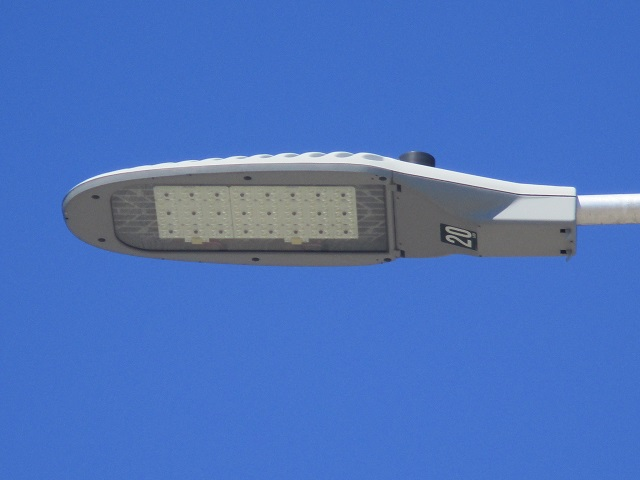 History of street lighting